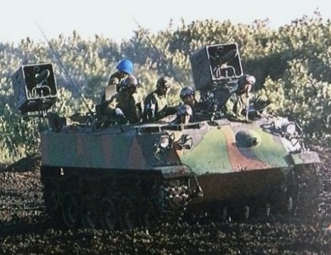 A Type SU 60 with KAM-3 (Type 64 MAT) missiles pods